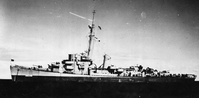 USS Frederick C. Davis (DE-136), the last warship lost in the European Theater in World War II. It was one of 563 such escort vessels produced in American shipyards. Commissioned at Orange, Texas, in July 1943, she proceeded to Washington, D.C., where she was fitted with radio wave jamming equipment for service in the Mediterranean. During operations off the coast of North Africa and the Anzio beachhead, "Davis" foiled numerous Luftwaffe attacks, jamming radio-controlled bombing runs on Allied shipping and downing eight Axis bombers Refitted in New York in 1944, "Davis" took part in Operation Teardrop in the spring of 1945, being the only U.S. warship lost in that successful barrier operation against the last wolfpack sortie against the East Coast. (Philip K. B. Lundeberg 10/04/2006). Smithsonian Curator Philip K. B. Lundeberg was aboard the ship when it sank. He first probed "Operation Teardrop" events in May 1945 interviewing fellow survivors of Frederick C. Davis DE-136 prior to preparation of numerous condolence letters and its final action report Full description